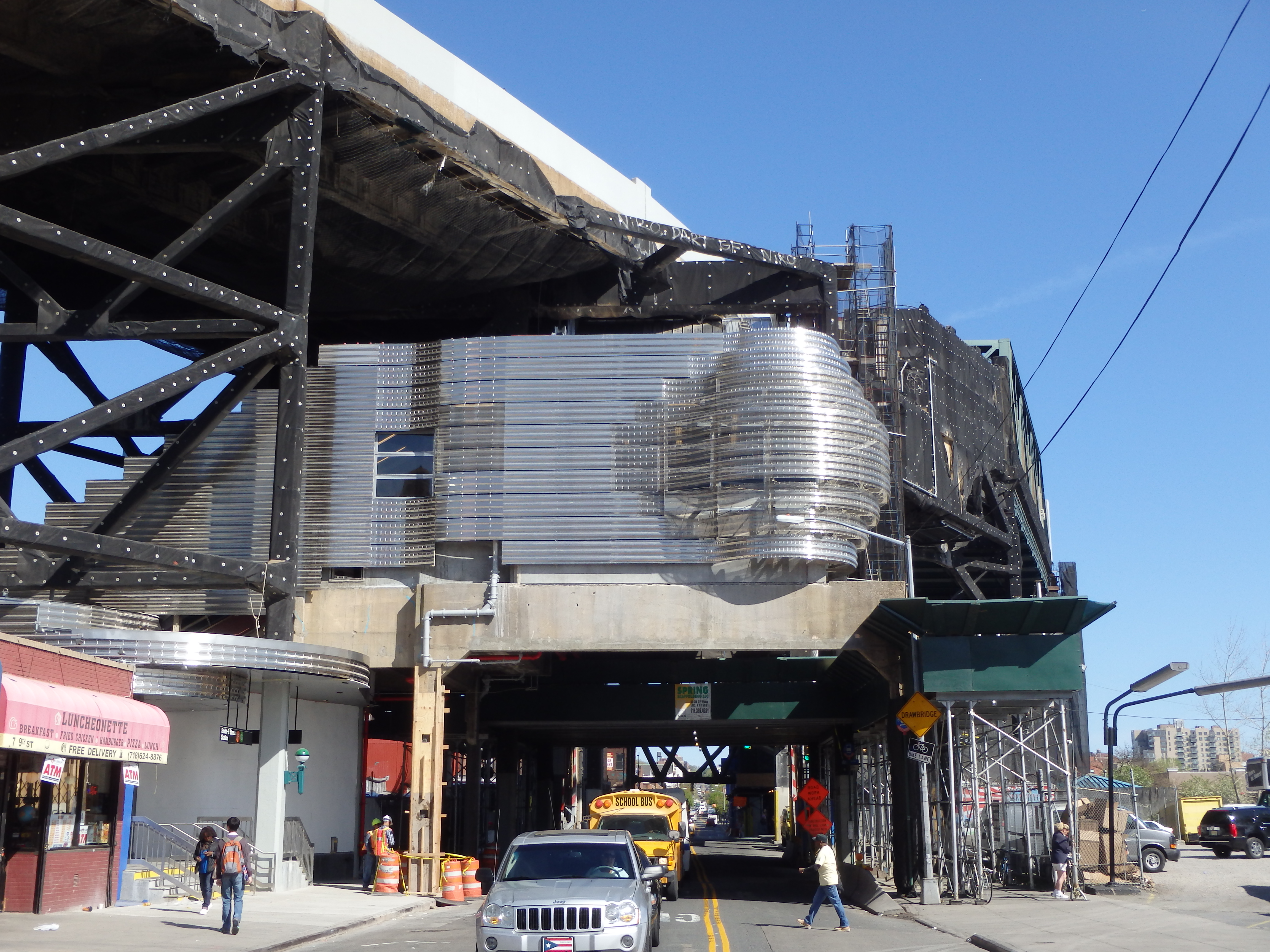 A trip to the recently reopened Smith/9 St station on the F & G lines. It is the highest subway station in the world, spans the Gowanus Canal and straddles the 9 St lift bridge over the Gowanus Canal.